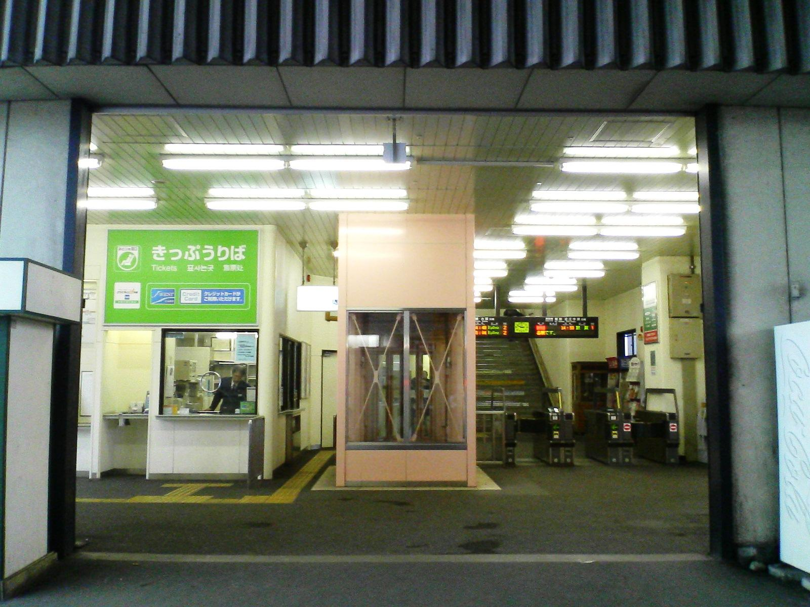 JR Hieizan Sakamoto Station